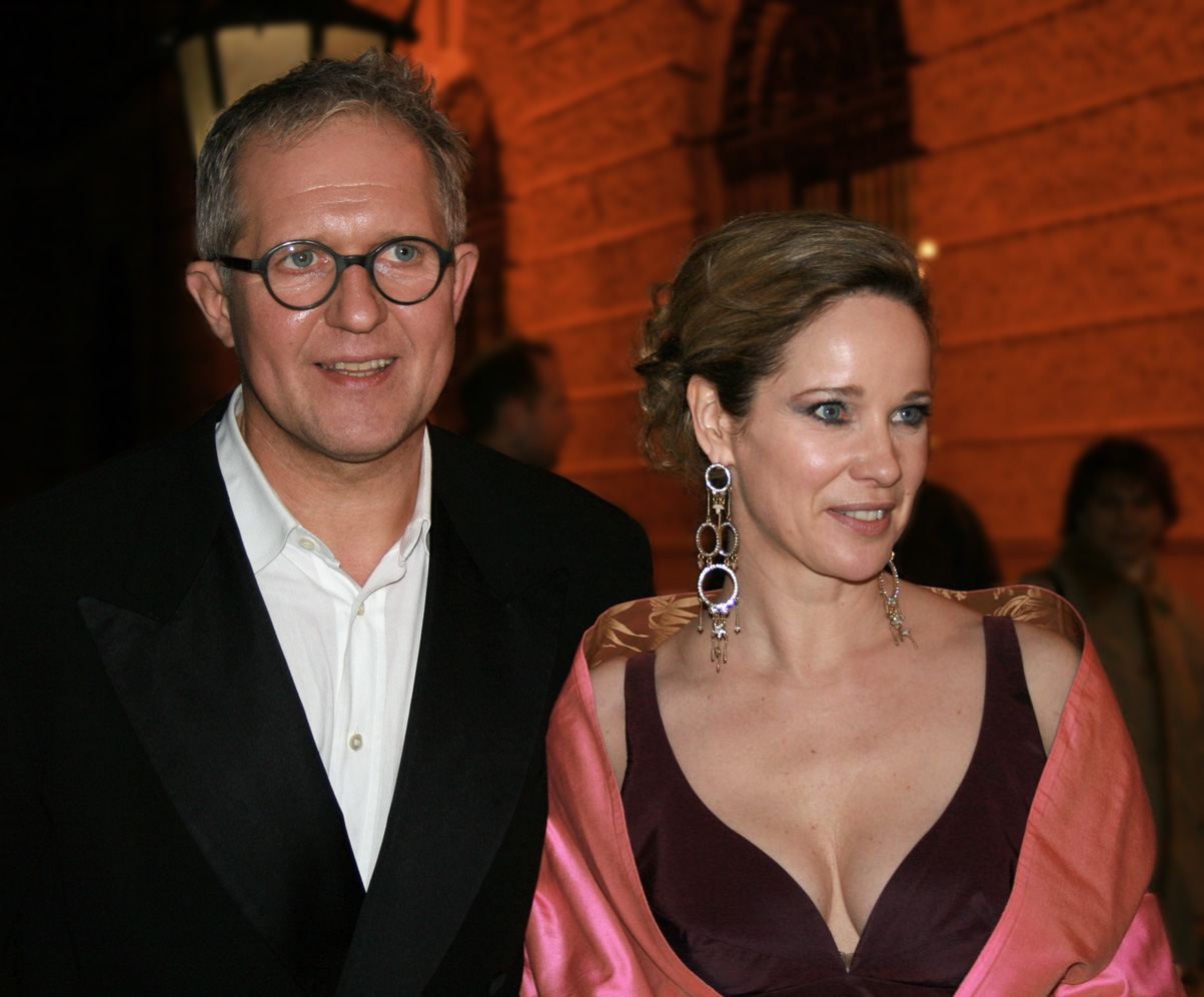 Actors Ann-Kathrin Kramer and Harald Krassnitzer, winner of the award as Most Popular Actor in a Television Program, at the Romy TV awards (Hofburg Imperial Palace in Vienna)